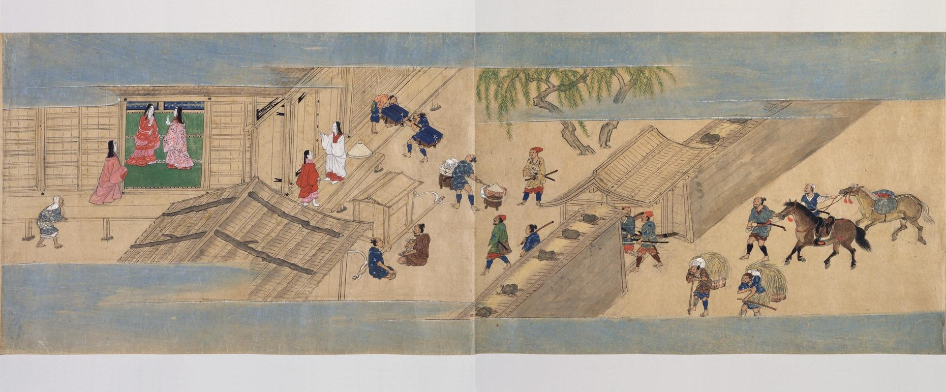 Kiyomizudera engi emaki - Scroll3 Pic7